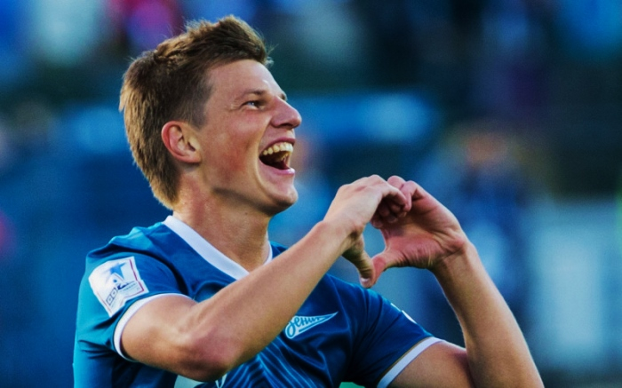 Andrei Arshavin